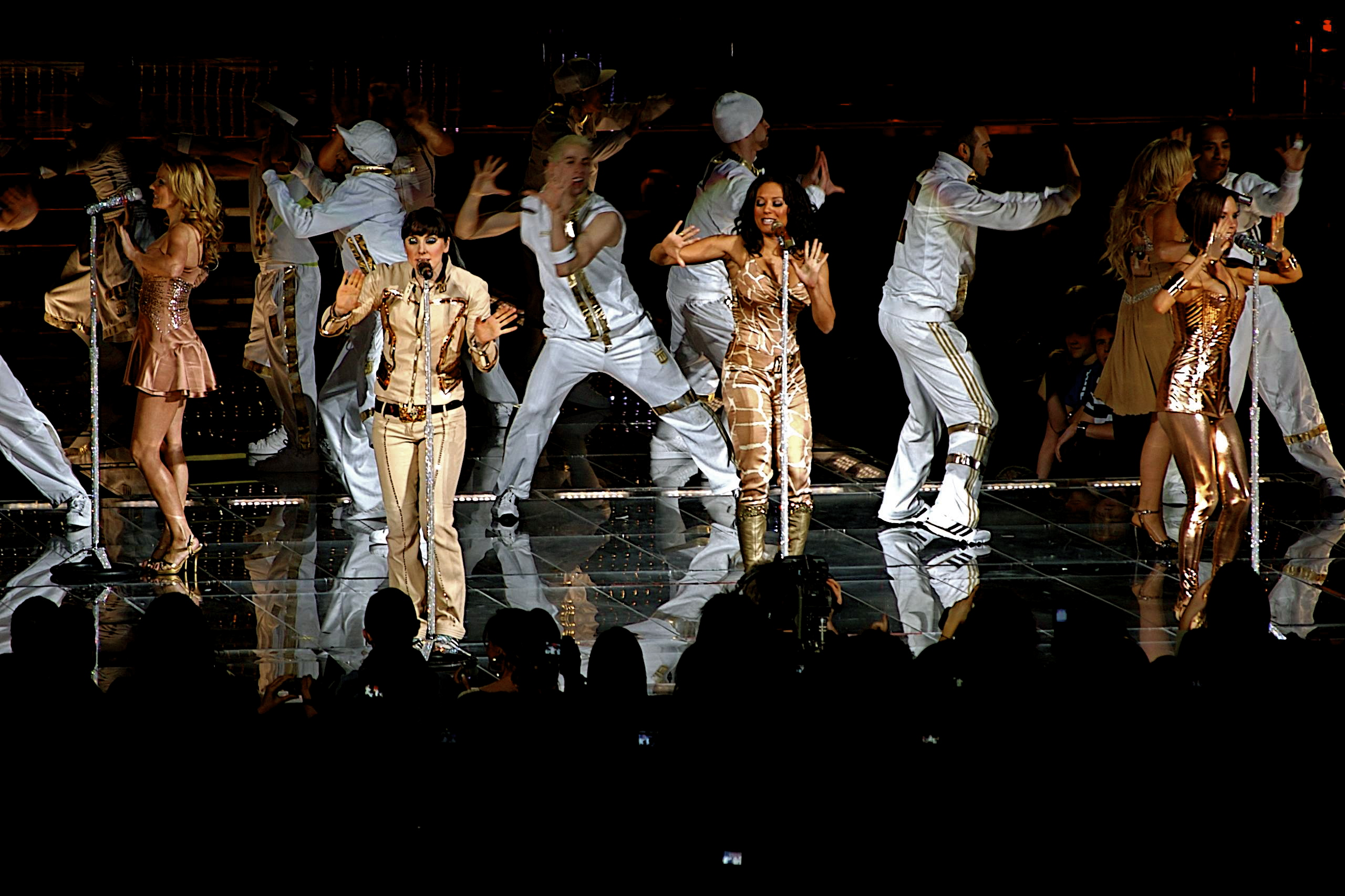 Spice Girls in Toronto Air Canada Center.